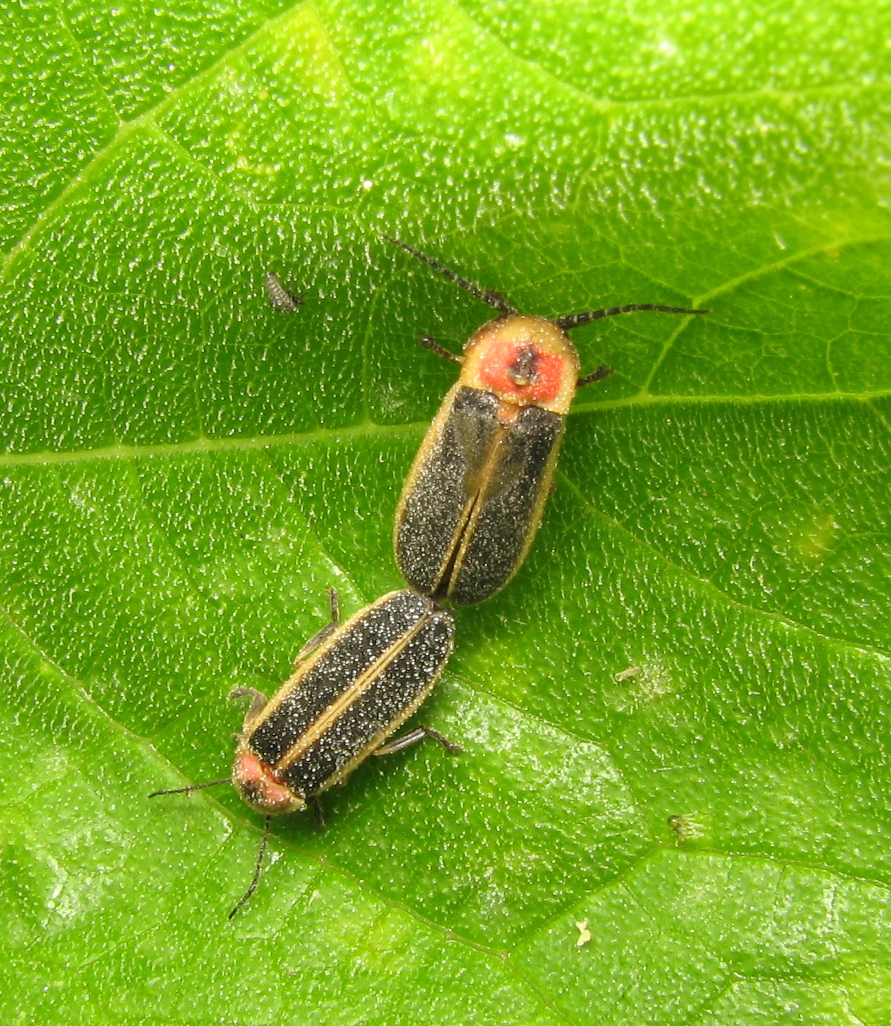 Firefllies, Photinus, mating on squash plant. Pennypack Farm, Horsham, Montgomery County, Pennsylvania, USA.